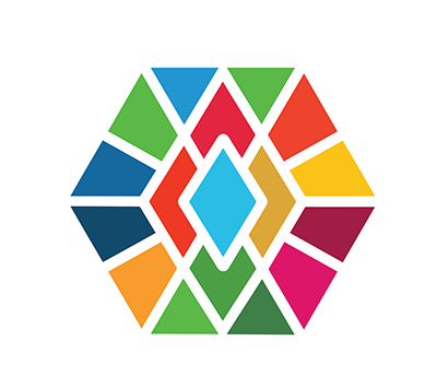 This is the official logo and emblem of the annual Novus Summit held at the United Nations General Assembly in New York City.